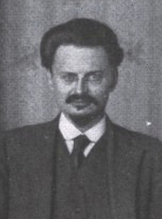 Leon Trotsky at Brest-Litovsk.